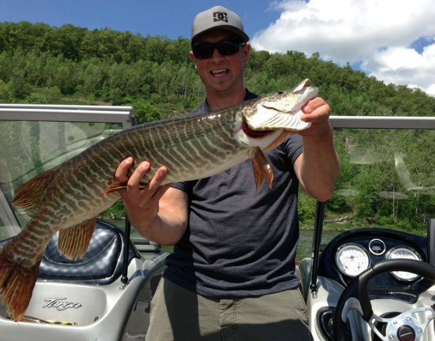 Tiger muskellunge, a freshwater carnivorous fish that is a sterile hybrid between a true muskellunge (Esox masquinongy) and the northern pike (Esox lucius), caught at Tioga-Hammond/Cowanesque lakes in Pennsylvania in the United States in June 2013.